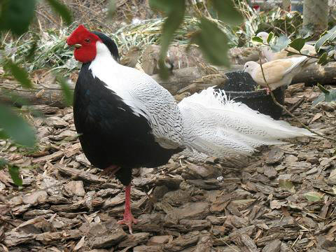 Description: Silver Pheasant (Lophura nycthemera) - Source: own work - Location: Central Park Zoo, New York - Author: self, User:Stavenn